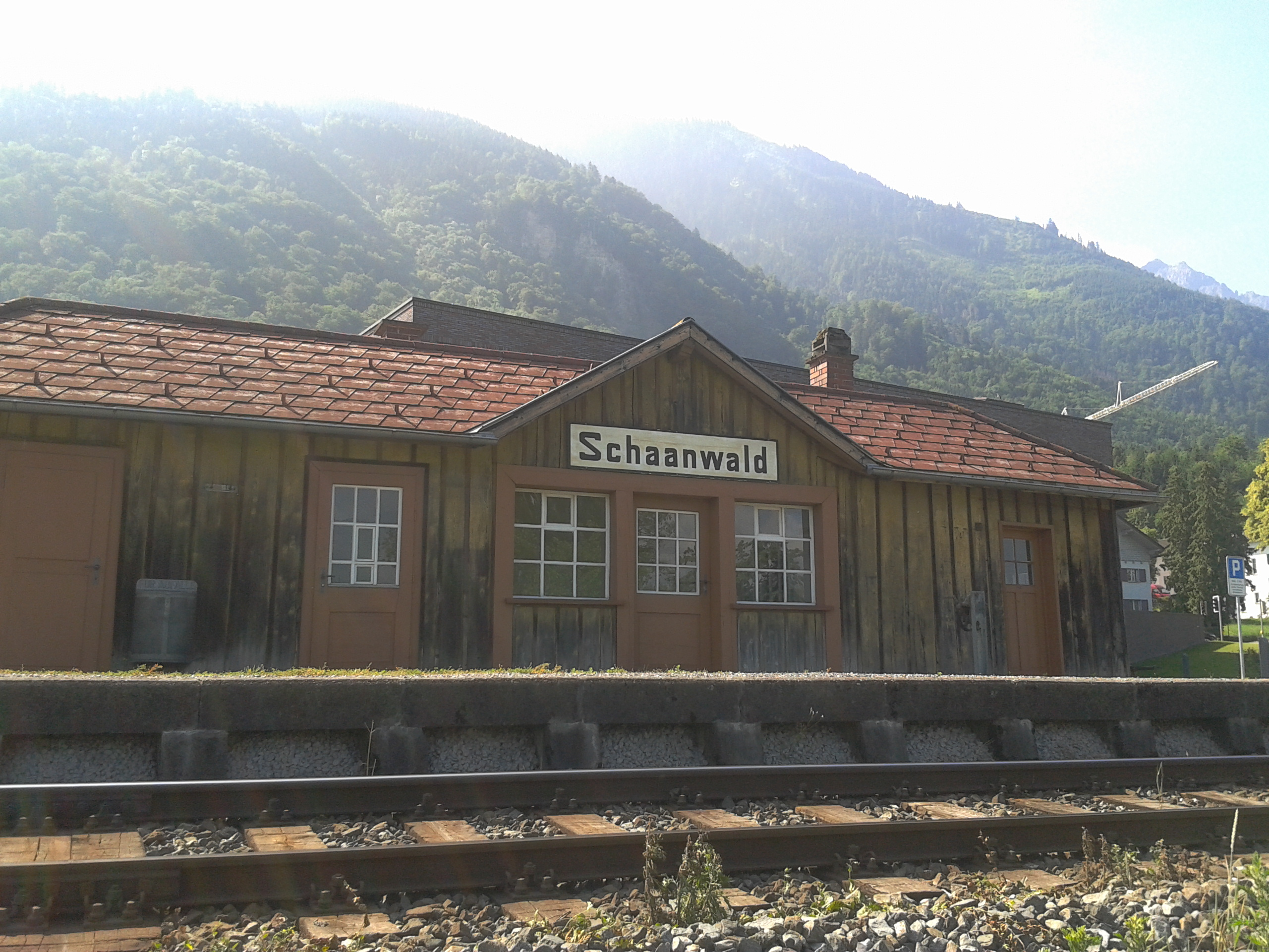 Trainstop-Building Schaanwald, from the North